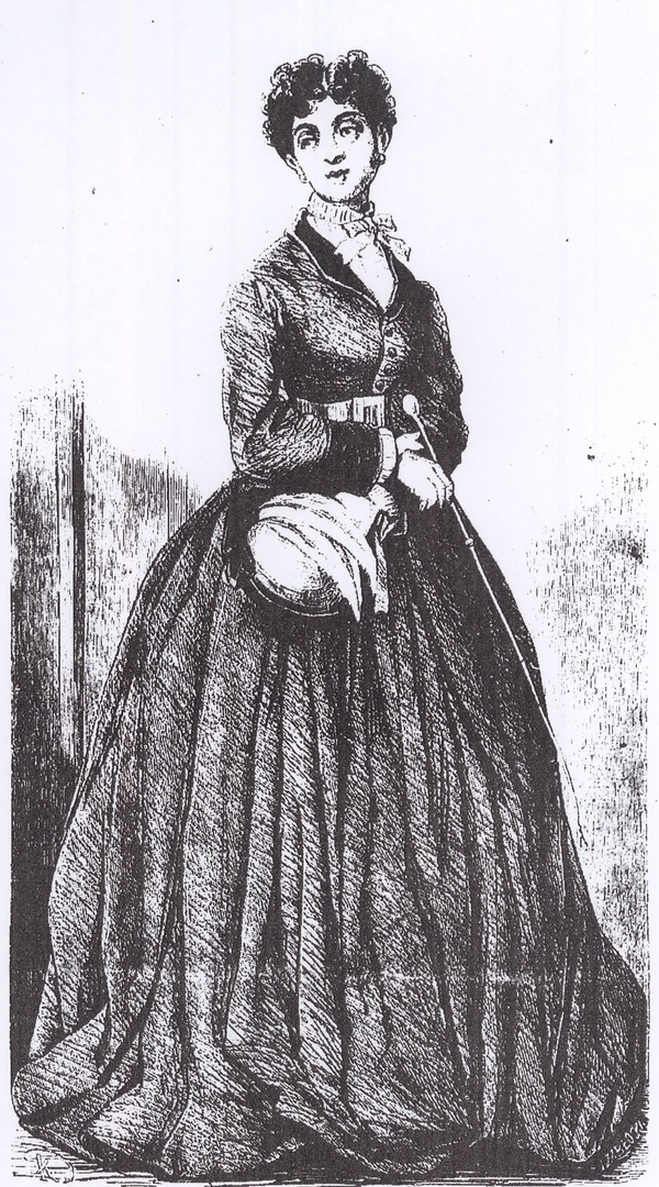 Salomea Palinska on state, by Juliusz Kossak, Tygodnik Ilustrowany, 1866, no 335